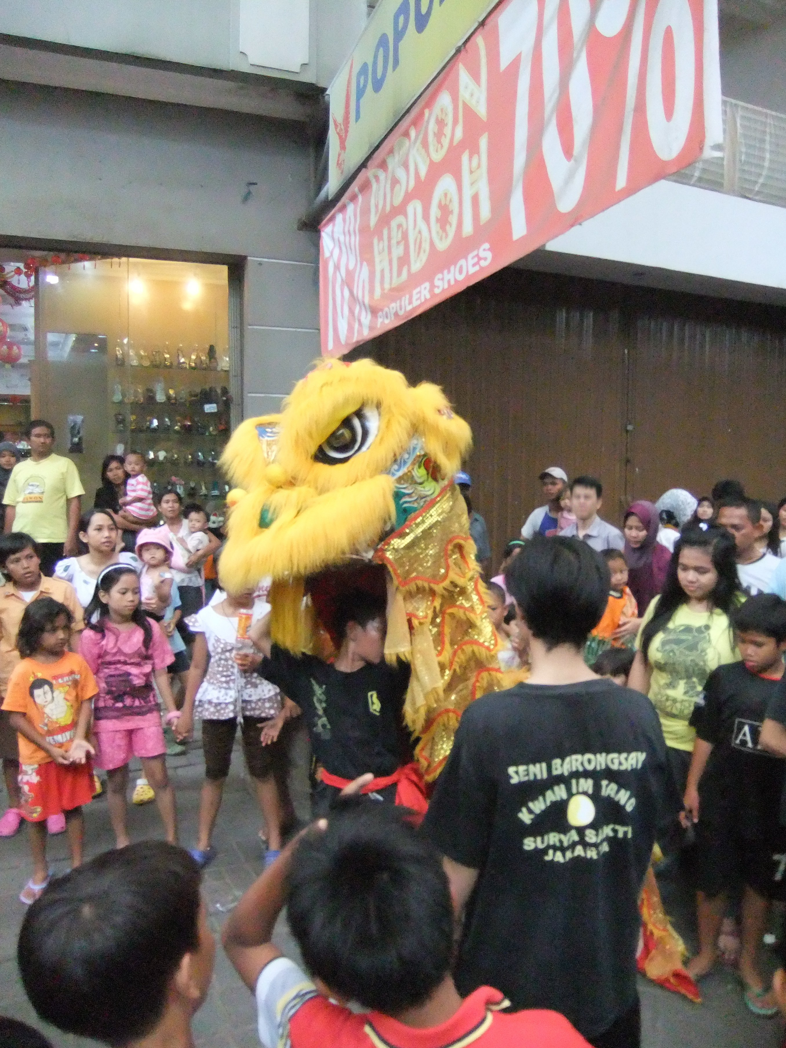 Barongsai celebration during Chinese New Year, at Pasar Baru, Jakarta